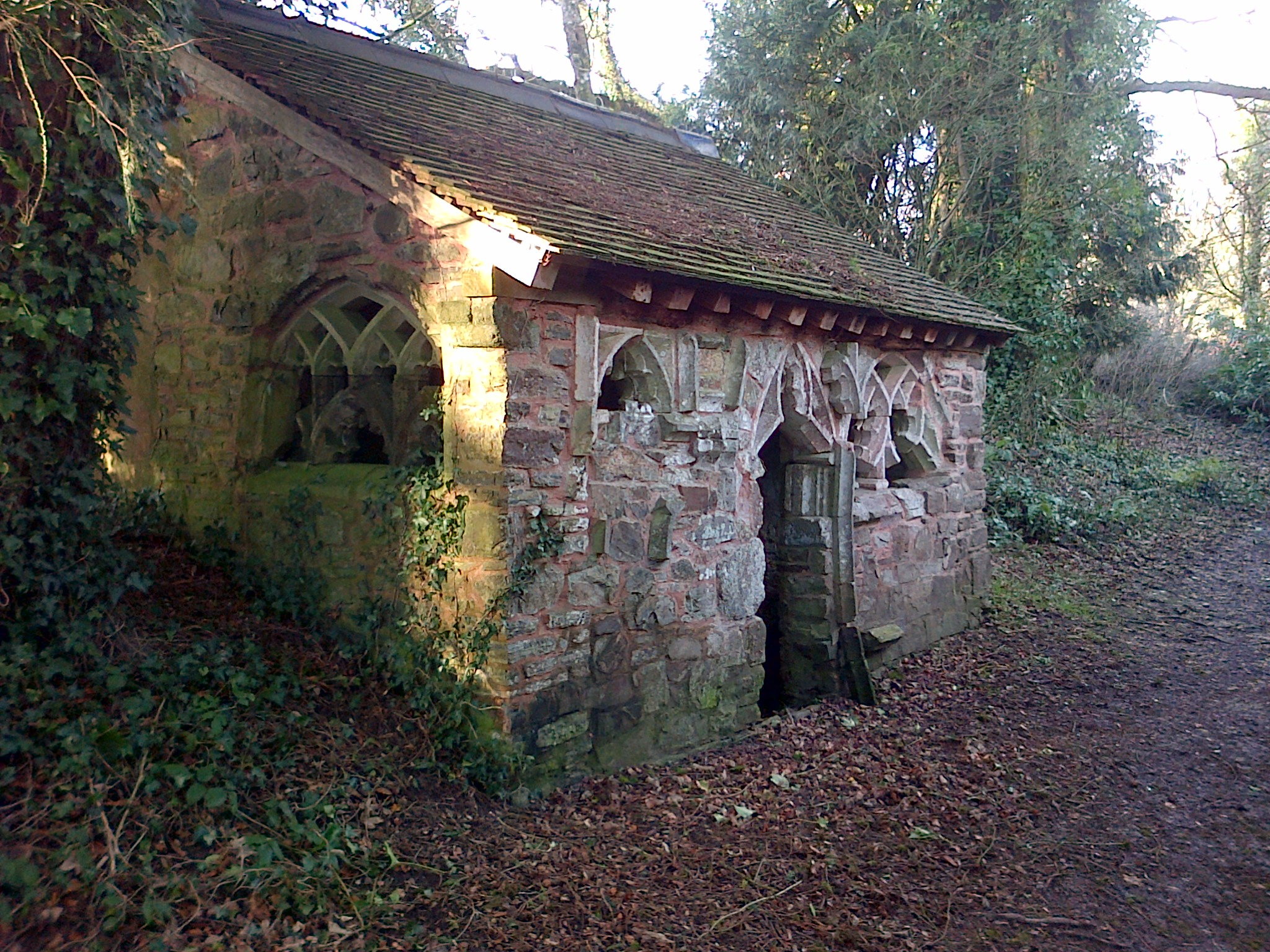 Grade II listed garden summerhouse in Huntsham, Devon